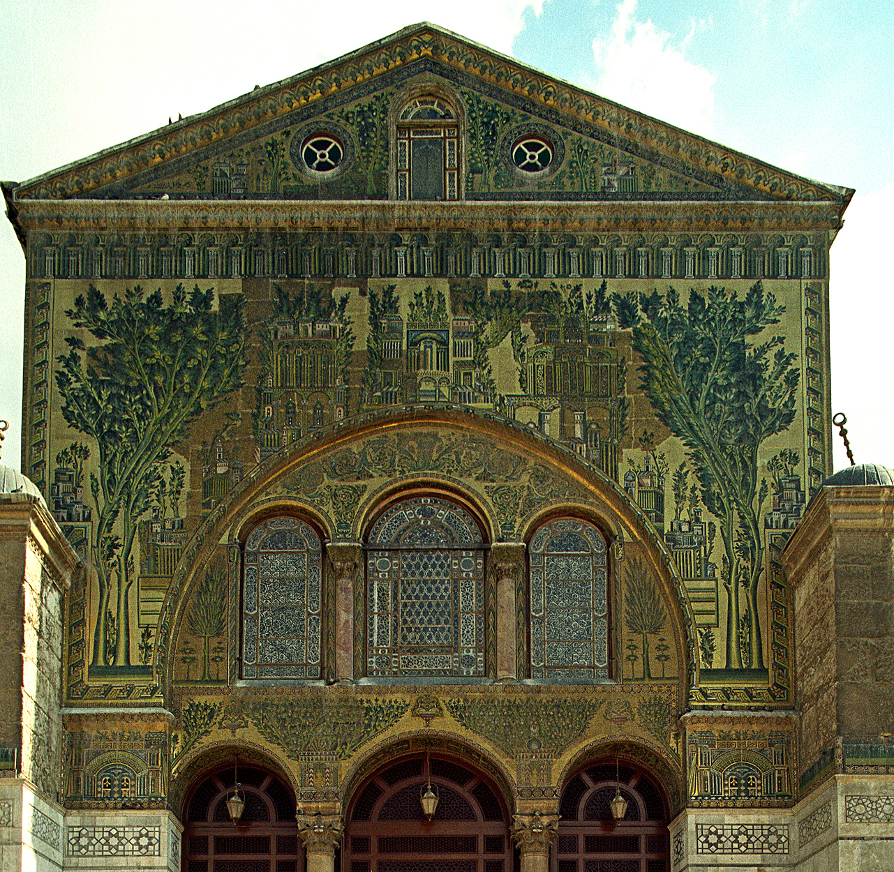 The Umayyad Mosque - the Eagle Dome, mosaics, Damascus